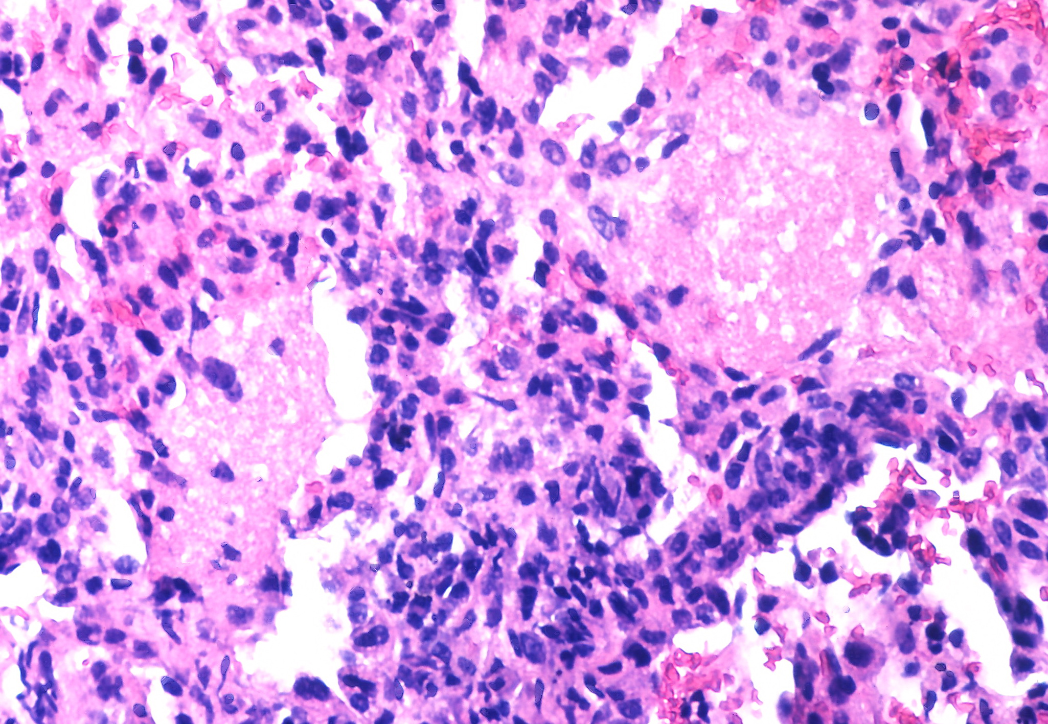 Alveolar foamy exudate and severe chronic intersitial inflammation.